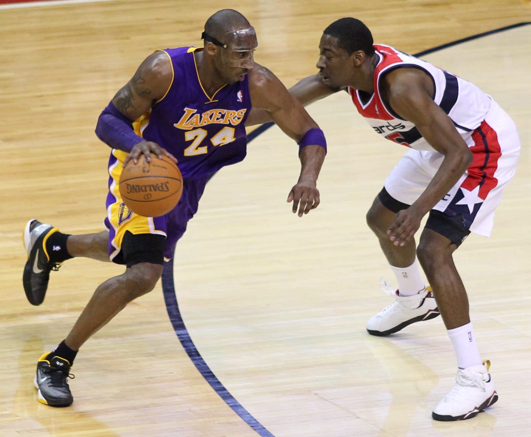 Lakers at Wizards March 7, 2012